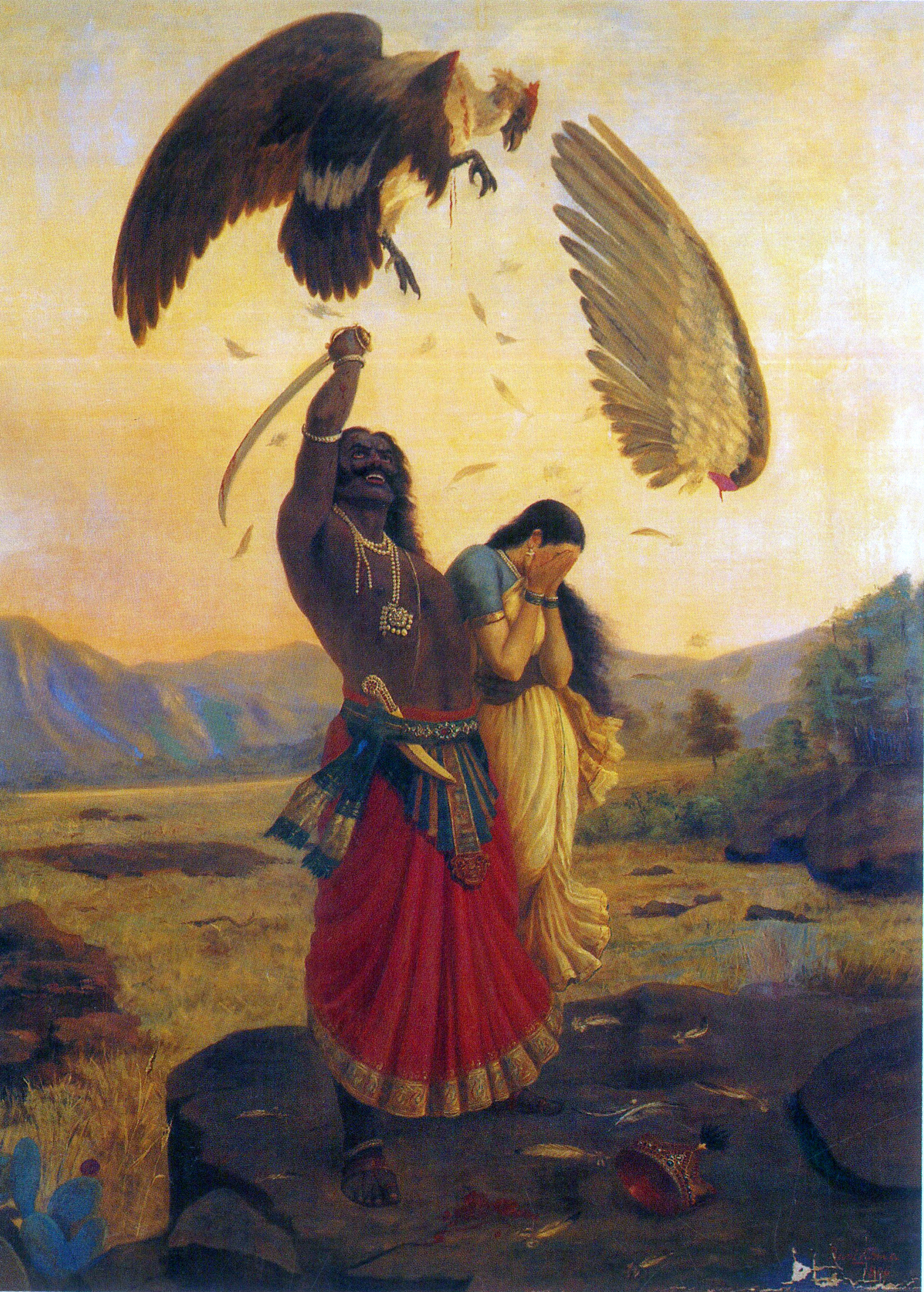 Ravana, killing Jatayu who was encountering Ravana to save Seetha, wife of Sri Rama.